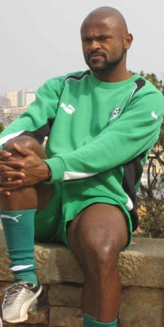 Brazilian footballer, Xavier Dirceu training with Maccabi Haifa in Barcelona, Spain